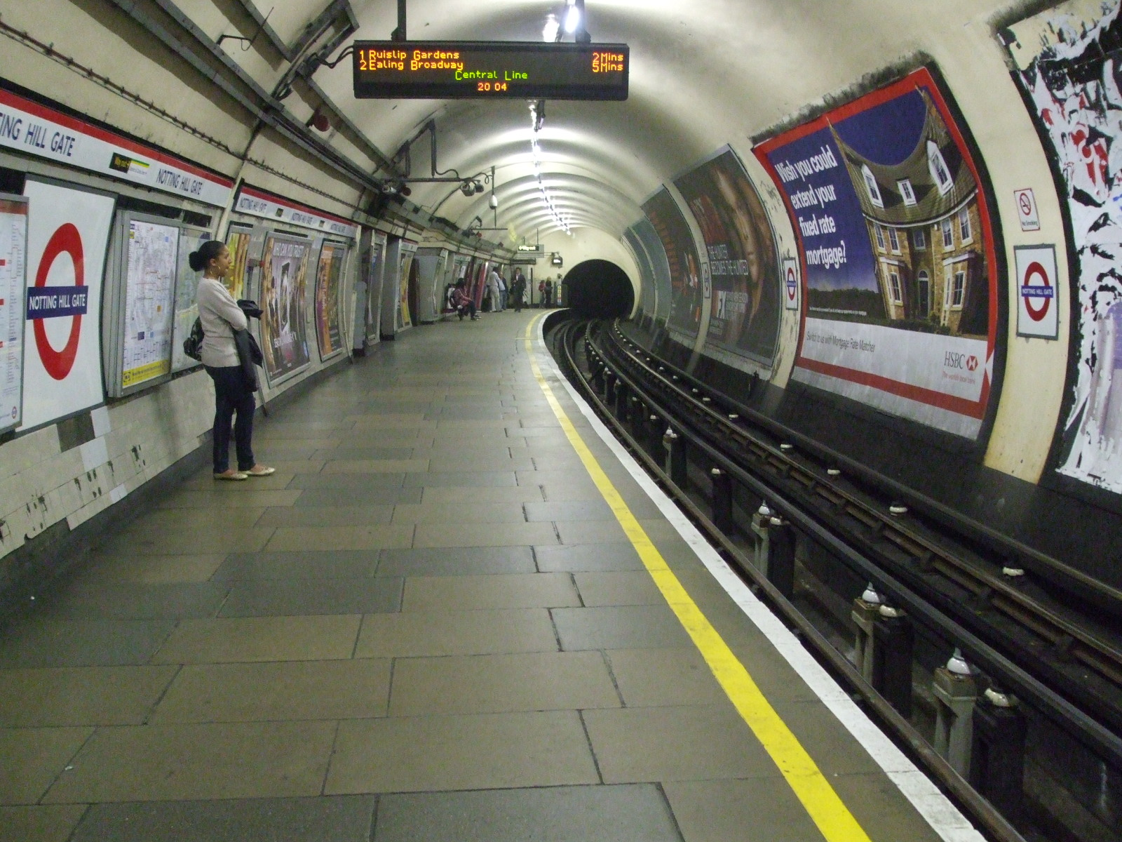 Notting Hill Gate tibe station westbound platform looking east